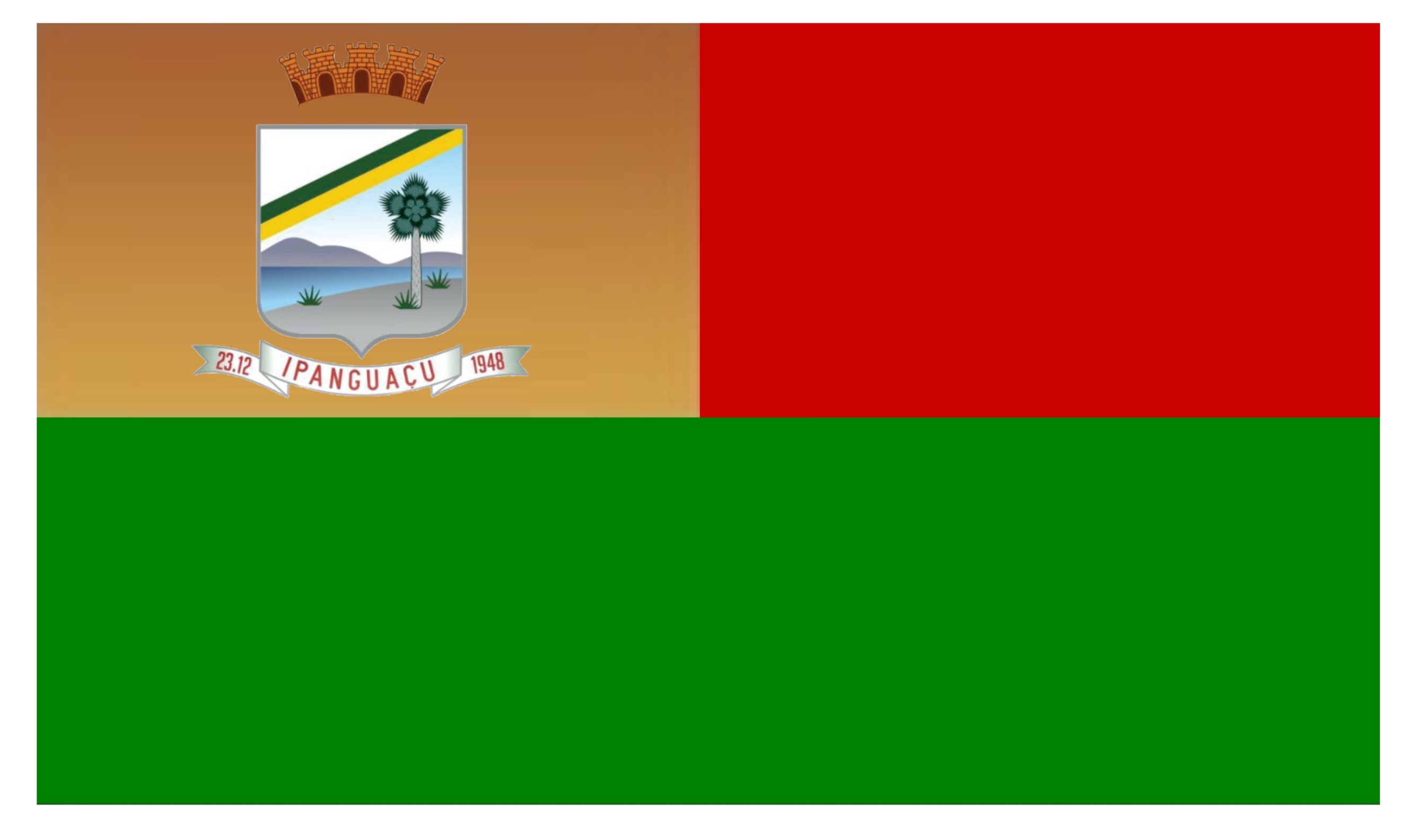 Flag of Ipanguaçu, a city in state of Rio Grande do Norte, in Brazil.